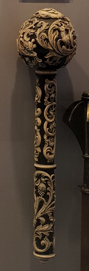 Brest Regional Homeland Museum 2019-08-23